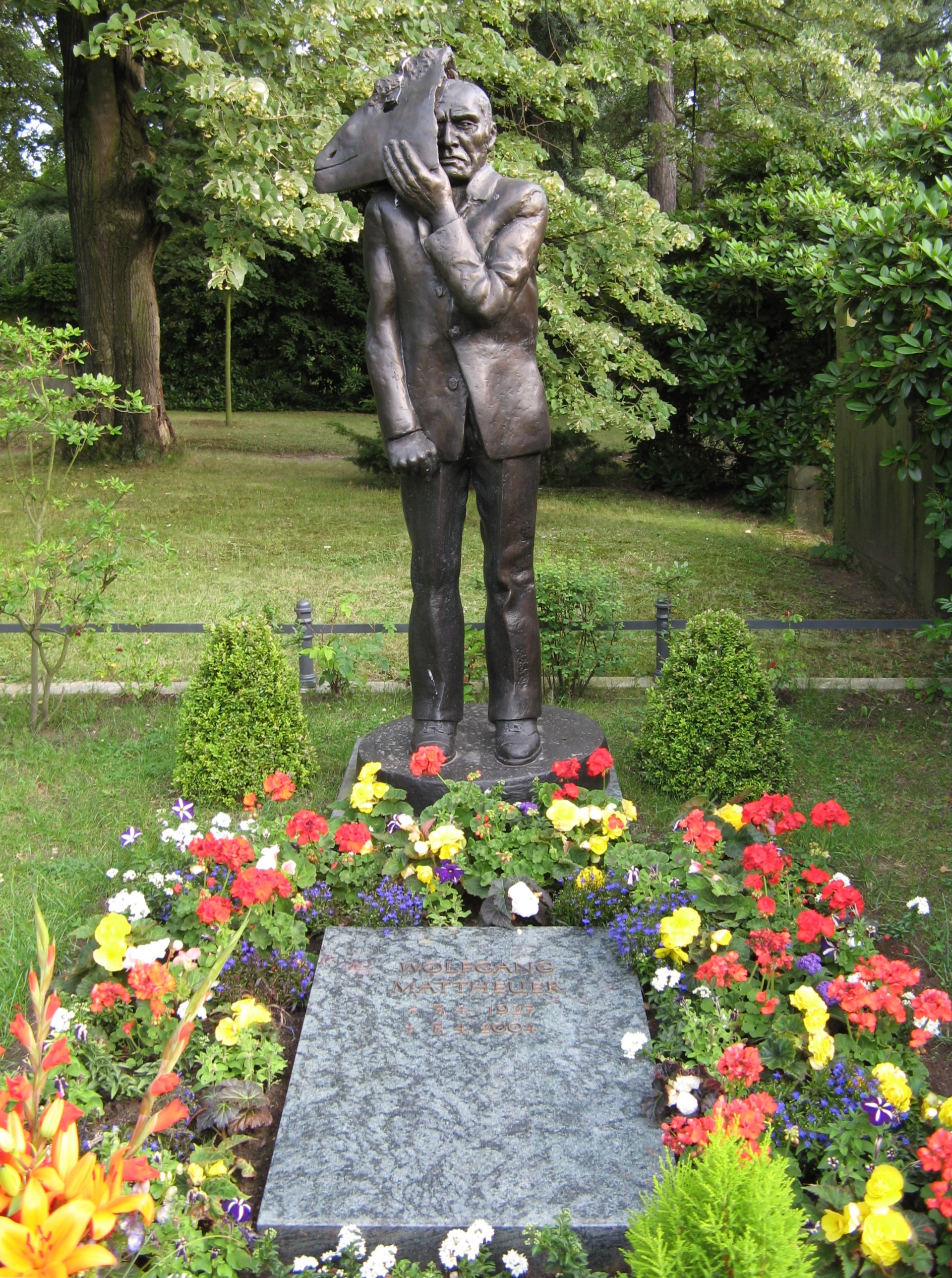 Gravesite of German painter, sculptor and illustrator Wolfgang Mattheuer at South Cemetery Leipzig